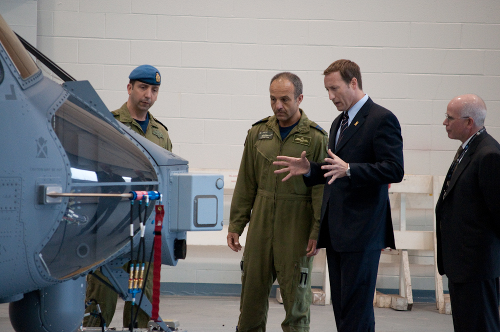 The Honourable Peter Gordon MacKay, Member of Parliament for Central Nova and Minister of National Defence, inspects a brand new Sikorsky CH-148 Cyclone with members of the Royal Canadian Air Force